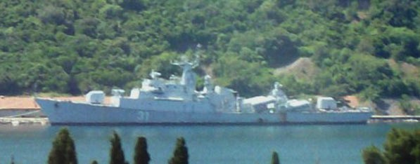 Montenegrin VPBR 31 Split, was called in 1990s Beograd and former the Soviet frigate Sokol, in Bijela, Bay of Kotor.